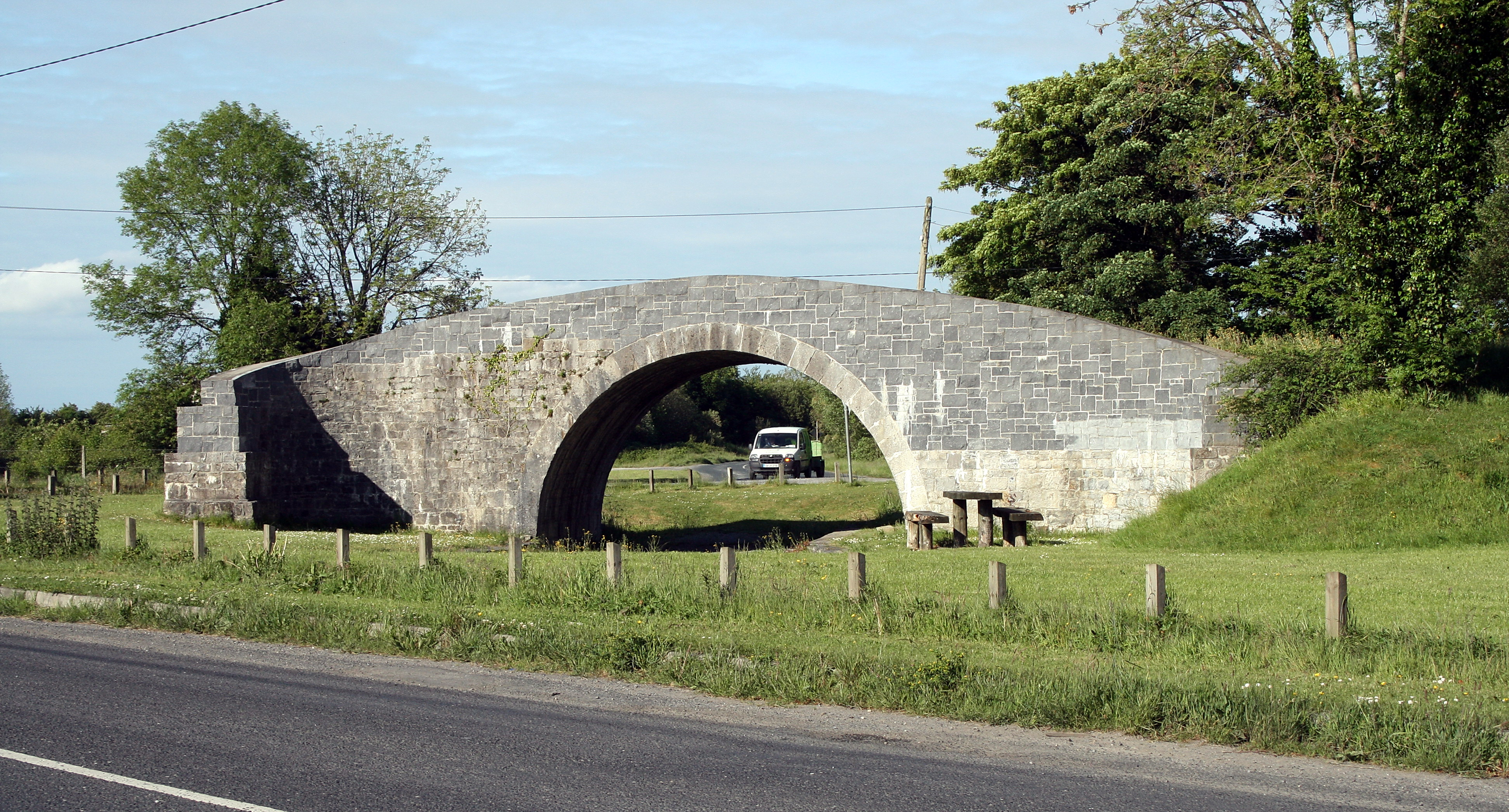 Near Portarlington, County Laois, near to Ballymorris, Kilbride, Kilnahown Bridge, Cuil an Tsudaire and Tirhogar Cross Roads, Laois, Ireland. From the R419 - a bridge carrying a no longer existing road over a no longer existing canal.